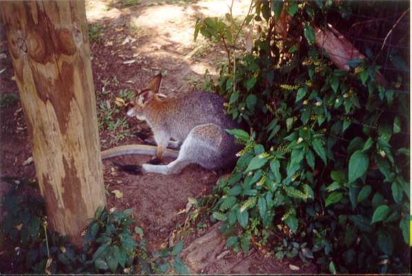 Wallaby at Gondwana Rainforest Sanctuary ( this photograph was taken by Figaro )